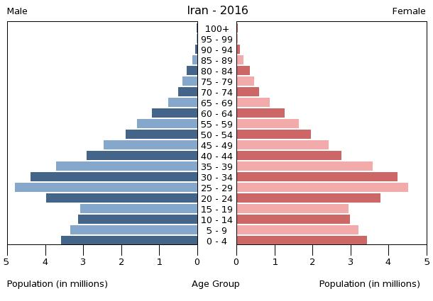 The population pyramid of Iran illustrates the age and sex structure of population and may provide insights about political and social stability, as well as economic development. The population is distributed along the horizontal axis, with males shown on the left and females on the right. The male and female populations are broken down into 5-year age groups represented as horizontal bars along the vertical axis, with the youngest age groups at the bottom and the oldest at the top. The shape of the population pyramid gradually evolves over time based on fertility, mortality, and international migration trends.